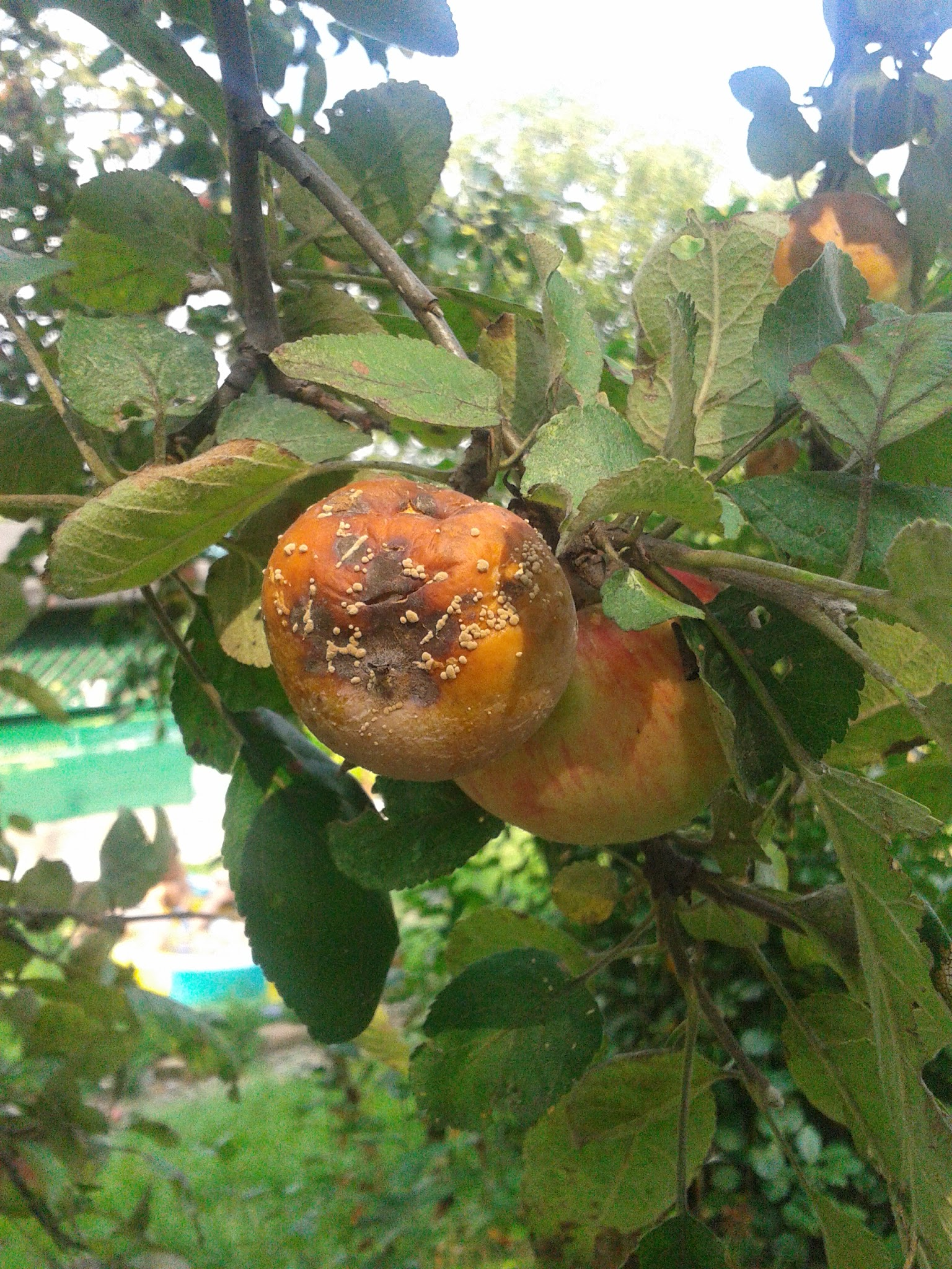 Fungal infection on apple fruits. Brown rot is a fungal disease of apples and other top-fruit. It is caused by the fungi Monilinia laxa and M. fructigena.